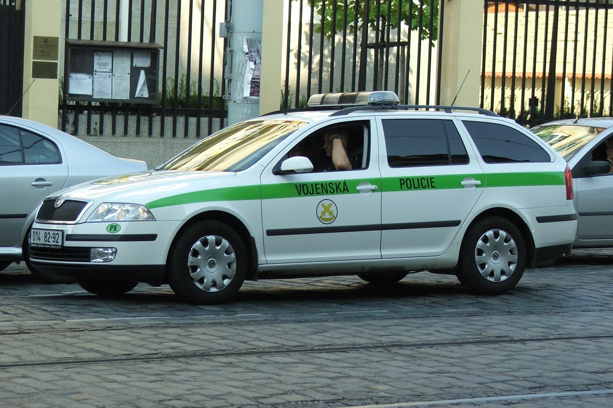 Škoda Octavia of Military police in the Czech Republic